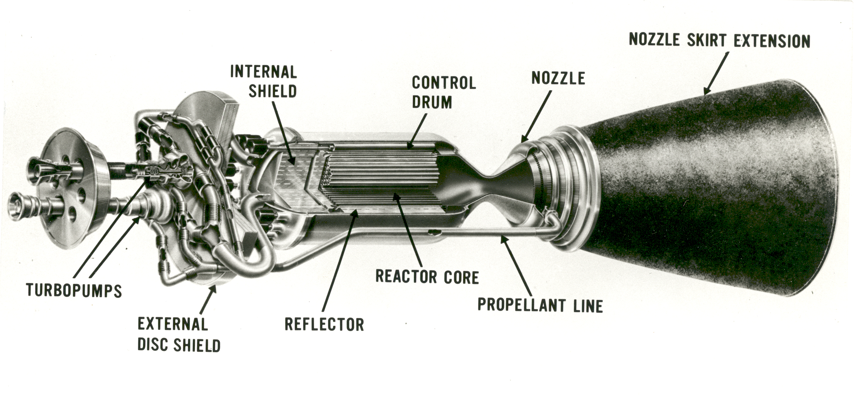 An explanatory drawing of the NERVA (Nuclear Engine for Rocket Vehicle Application)thermodynamic nuclear rocket engine. The main objective of project Rover/NERVA was to develop a flight rated engine with 75,000 pounds of thrust. The Rover portion of the program began in 1955 when the U.S. Atomic Energy Commission's Los Alamos Scientific Laboratory and the Air Force initially wanted the engine for missile applications. However, in 1958, the newly created NASA inherited the Air Force responsibilities, with an engine slated for use in advanced, long-term space missions. The NERVA portion did not originate until 1960 and the industrial team of Aerojet General Corporation and Westinghouse Electric had the responsibility to develop it. In 1960, NASA and the AEC created the Space Nuclear Propulsion Office to manage project Rover/NERVA. In the following decade, it oversaw a series of reactor tests: KIWI-A, KIWI-B, Phoebus, Pewee, and the Nuclear Furnace, all conducted by Los Alamos to prove concepts and test advanced ideas. Aerojet and Westinghouse tested their own series: NRX-A2 (NERVA Reactor Experiment), A3, EST (Engine System Test), A5, A6, and XE-Prime (Experimental Engine). All were tested at the Nuclear Rocket Development Station at the AEC's Nevada Test Site, in Jackass Flats, Nevada, about 100 miles west of Las Vegas. In the late 1960's and early 1970's, the Nixon Administration cut NASA and NERVA funding dramatically. The cutbacks were made in response to a lack of public interest in human spaceflight, the end of the space race after the Apollo Moon landing, and the growing use of low-cost unmanned, robotic space probes. Eventually NERVA lost its funding, and the project ended in 1973.